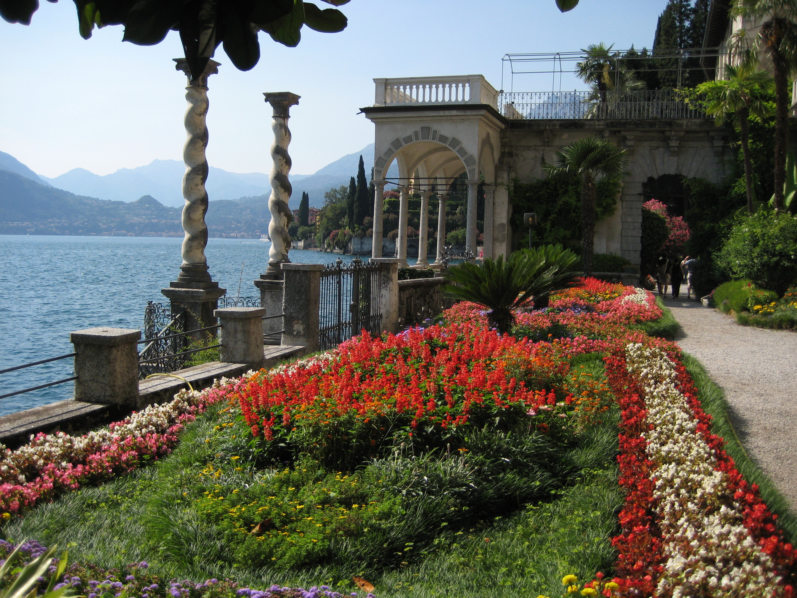 Varenna at the Lake Como